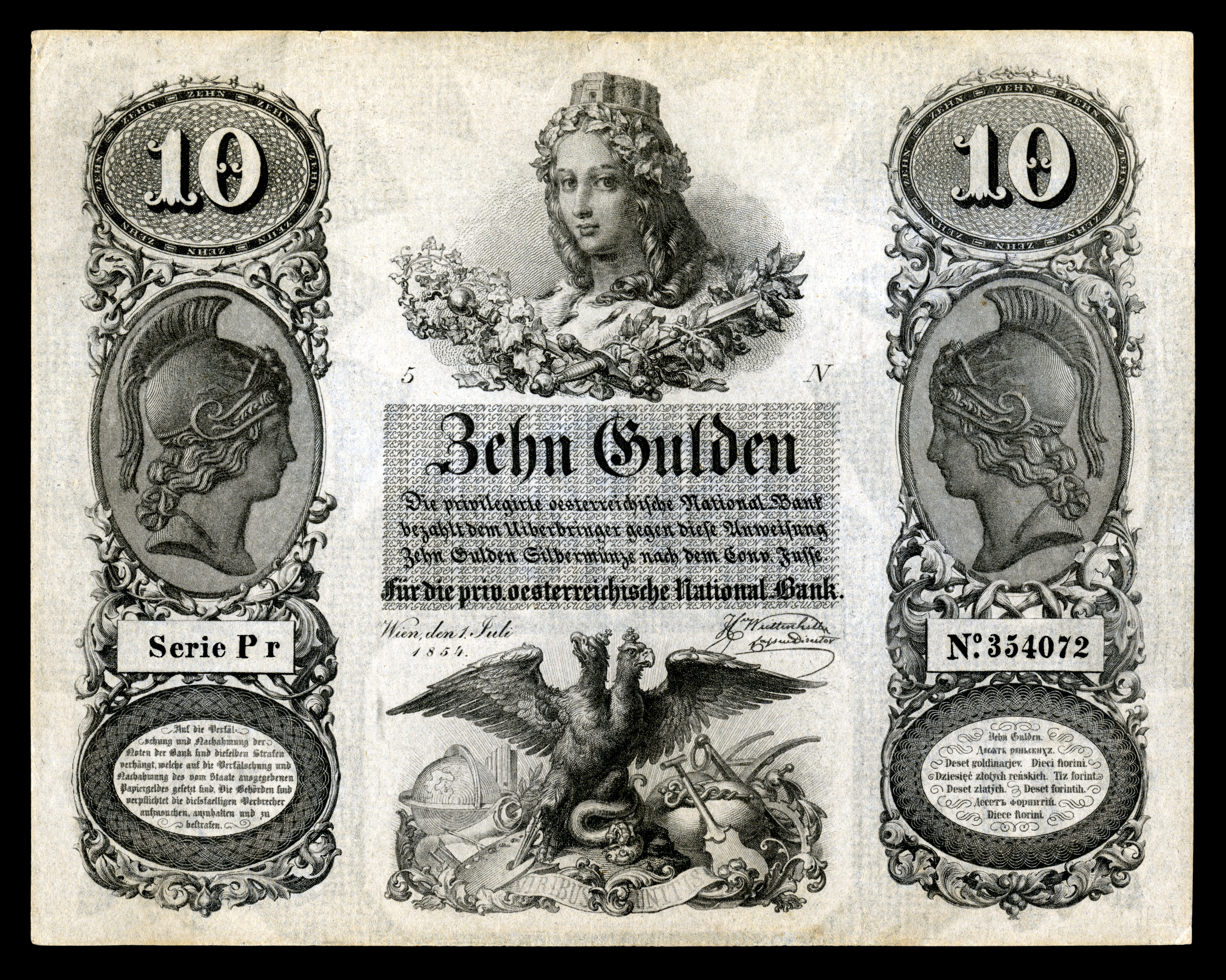 Austrian Empire, 10 Gulden (1854). Designed by Peter Johann Nepomuk Geiger